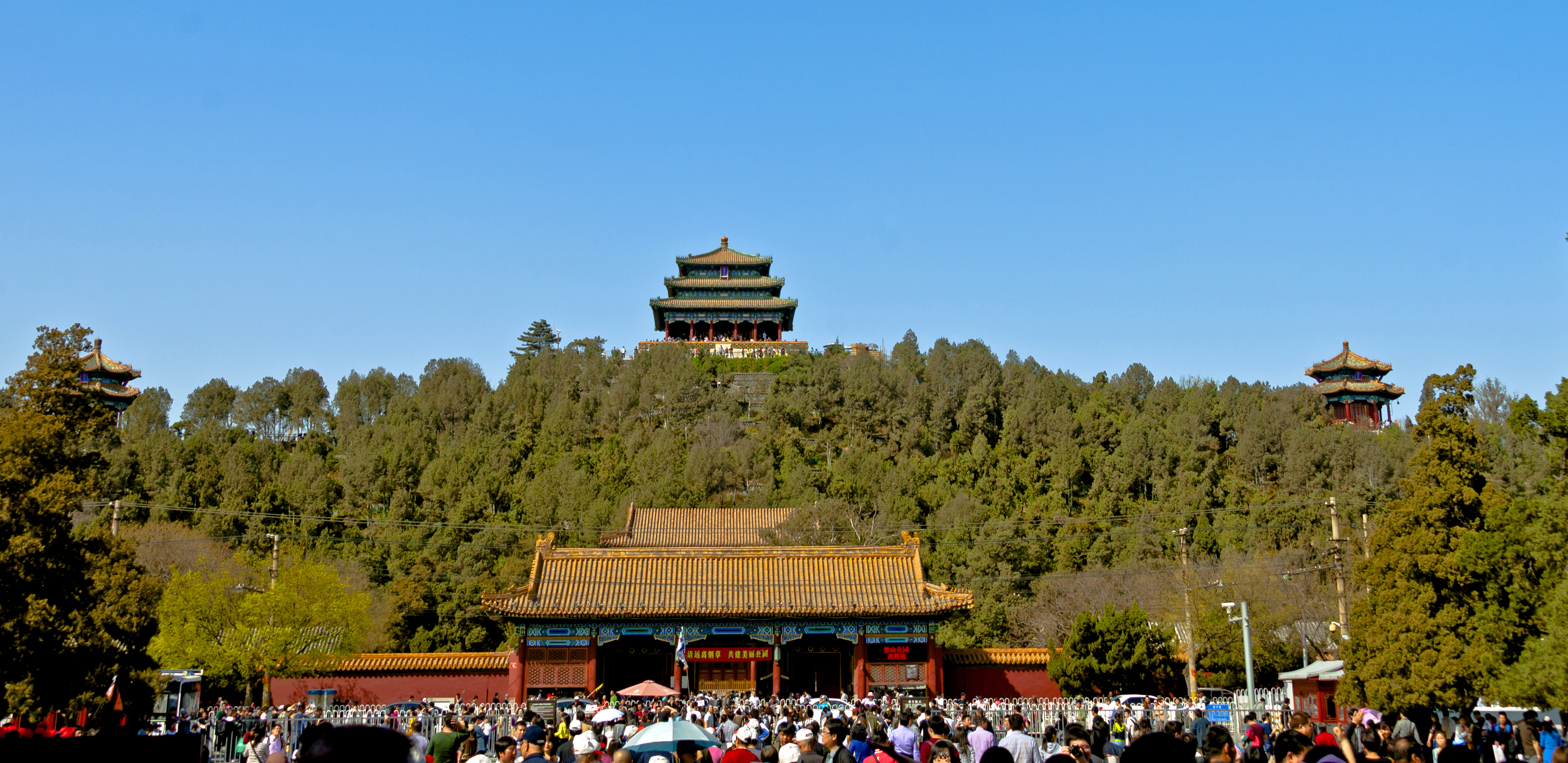 View of Jingshan Park from just outside the north gate of the Forbidden City